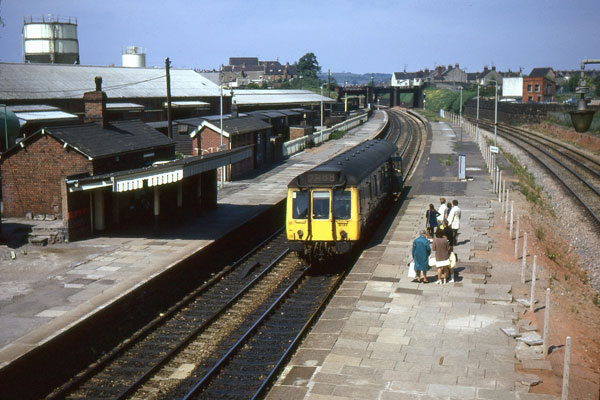 A Severn Beach-Temple Meads service calls at Lawrence Hill, June 1974